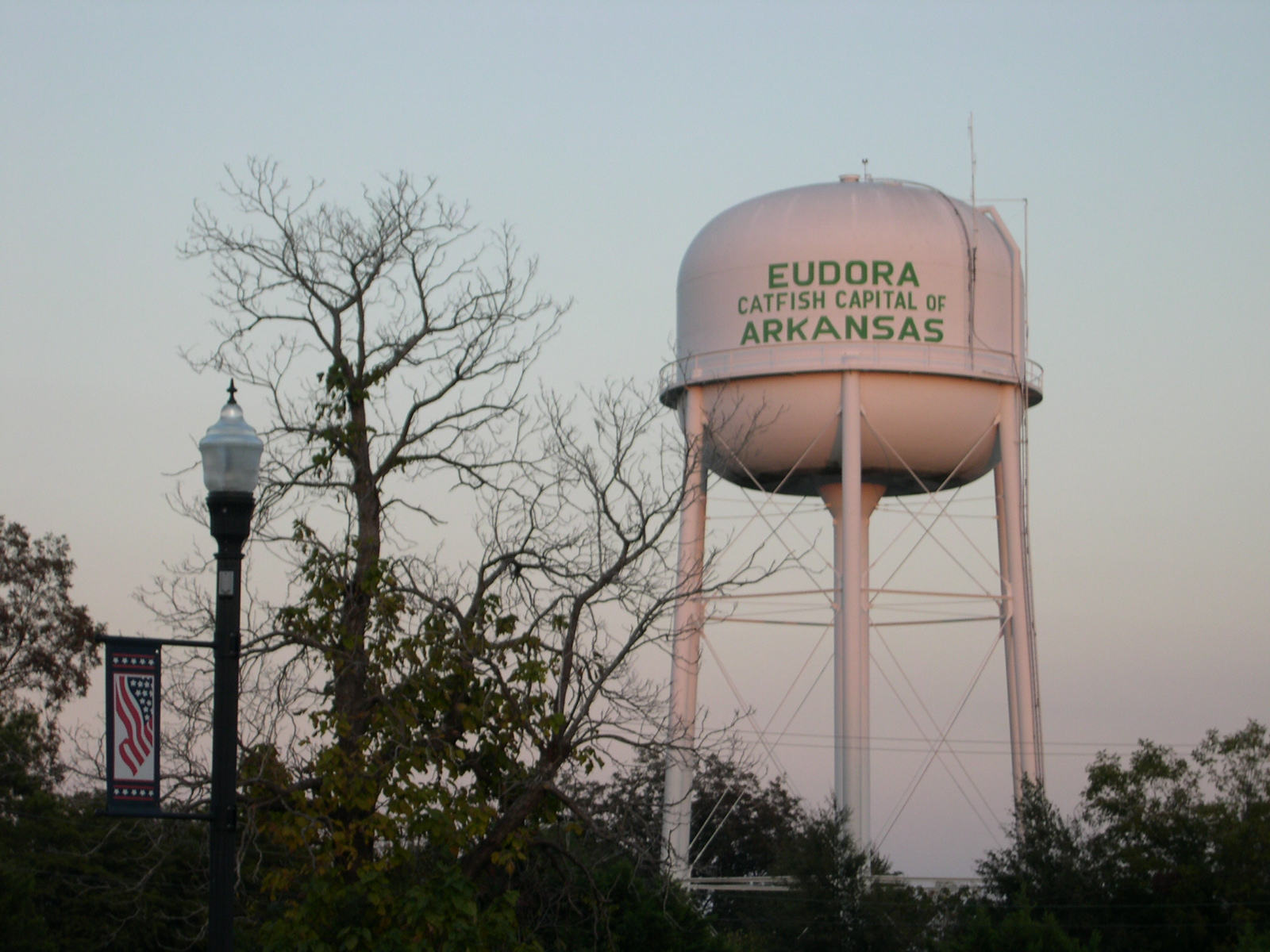 shot of the Eudora water tower